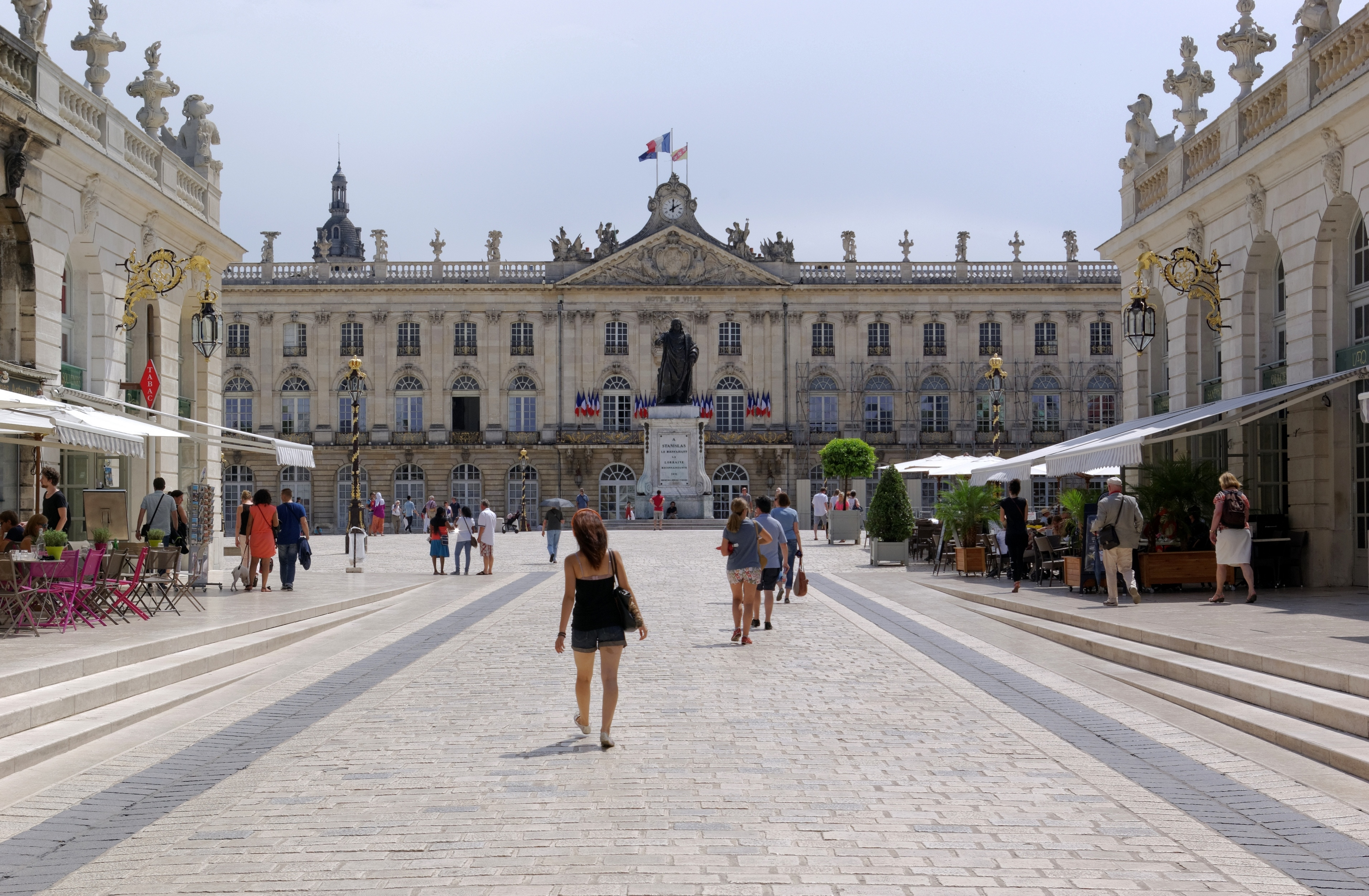 France, Nancy, Place Stanislas